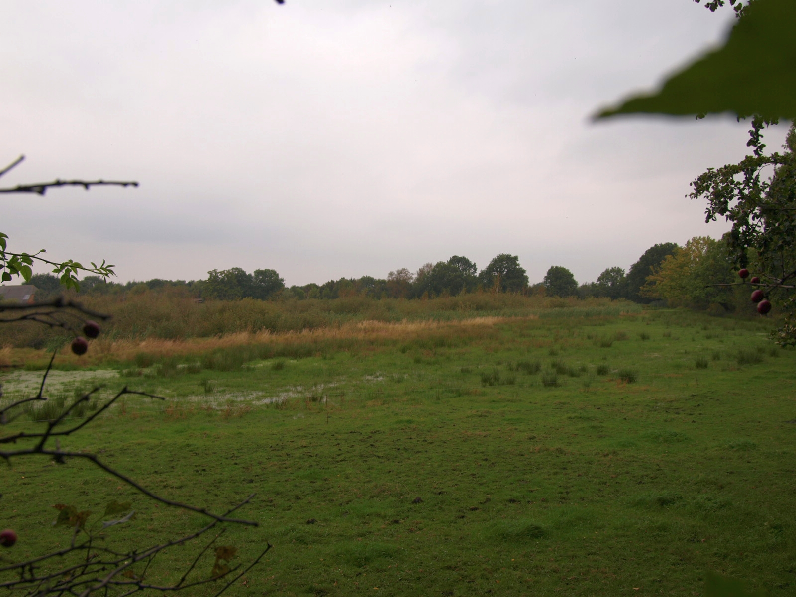 Heidmoor near Rendswühren, Plön district, Schleswig-Holstein, Germany. Findspot of bog body Rendswühren Man found in 1871.